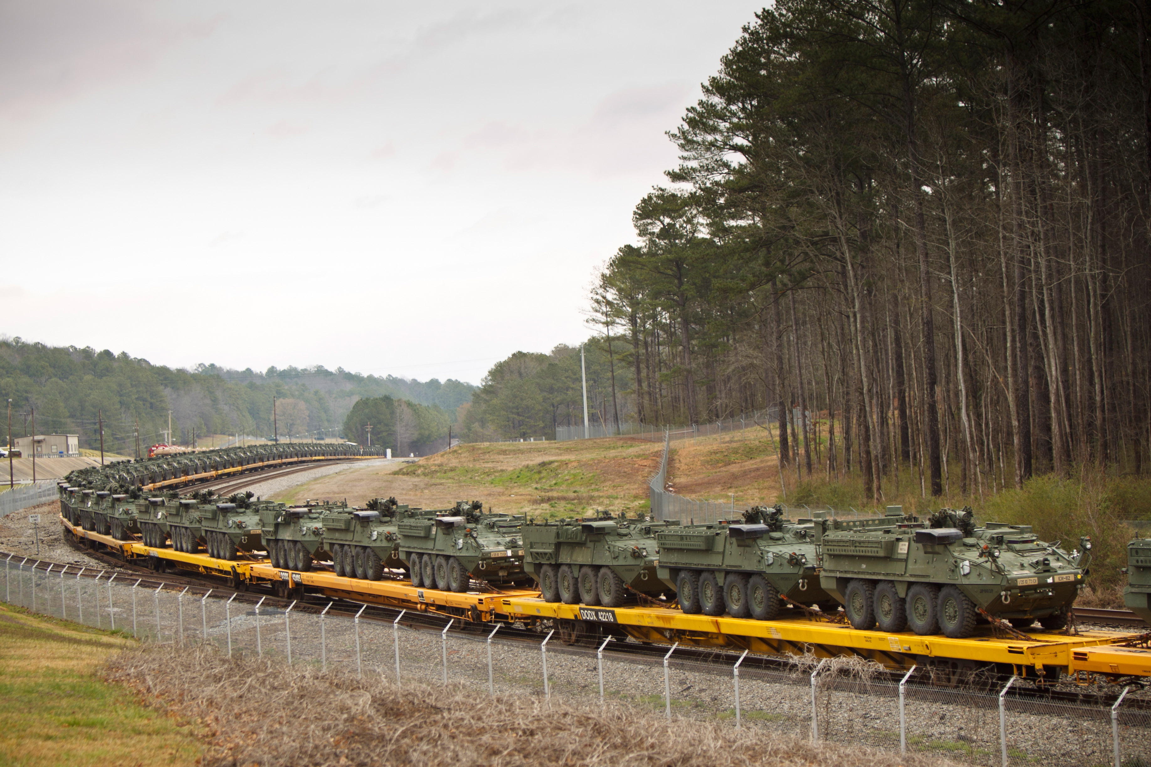 Stryker vehicles sit on rail cars awaiting induction into the reset process at Anniston Army Depot in this file photo from March 2011. ANAD and General Dynamics Land Systems will celebrate 10 years of production for the Stryker family of vehicles in April. ANAD, GDLS mark 10 years of Stryker